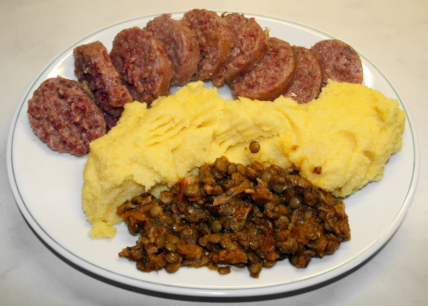 A Cotechino Modena, sliced, ready to serve with Polenta, and Lentils in sauce, as popularly served in Italy, especially around the New Year.